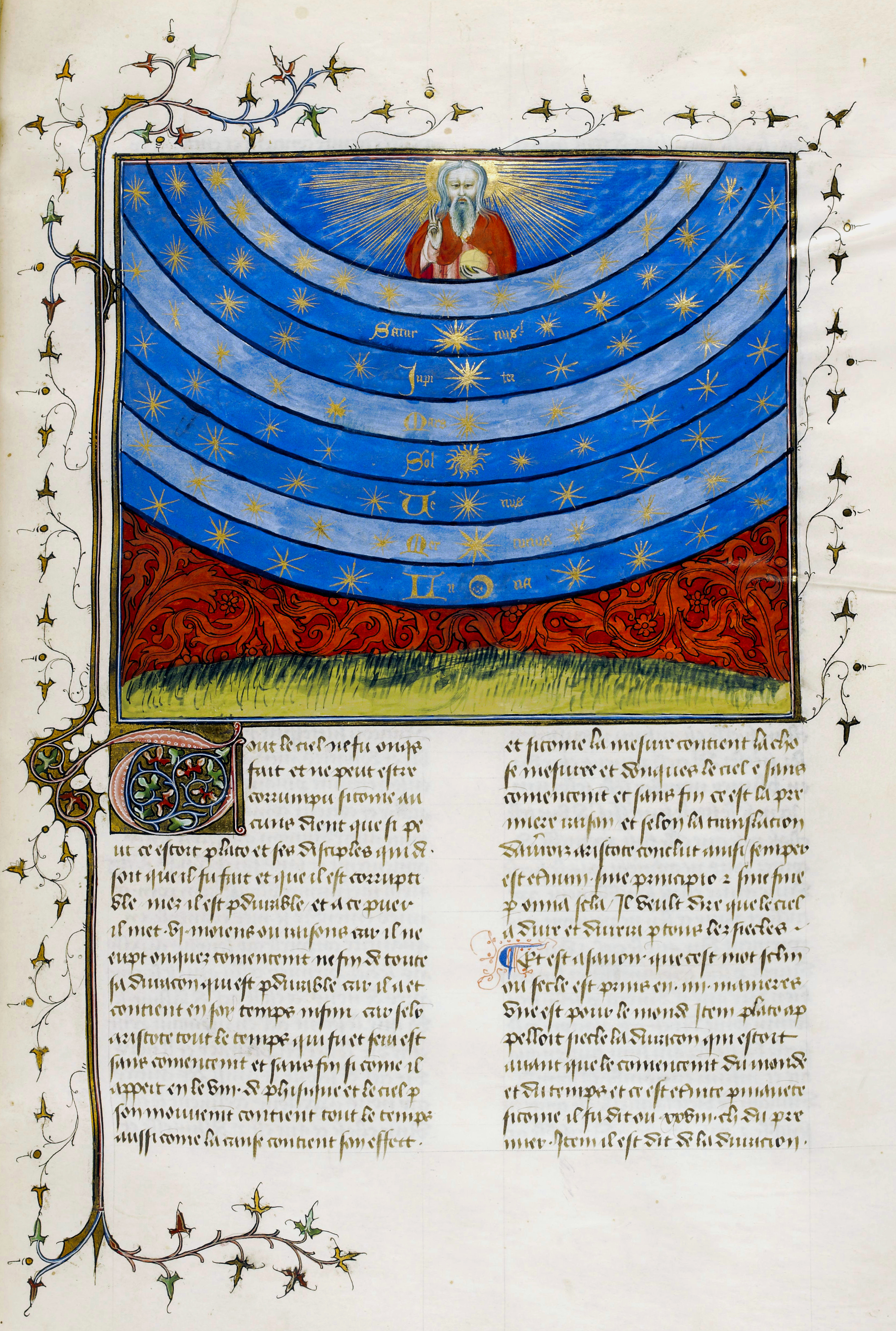 Le livre du Ciel et du Monde Illustration of the Celestial spheres Note that although the order of the spheres is conventional, with the Moon and Mercury closest the Earth and Saturn and the stars farthest, the spheres are convex upward centered on God rather than convex downward centered on the Earth.